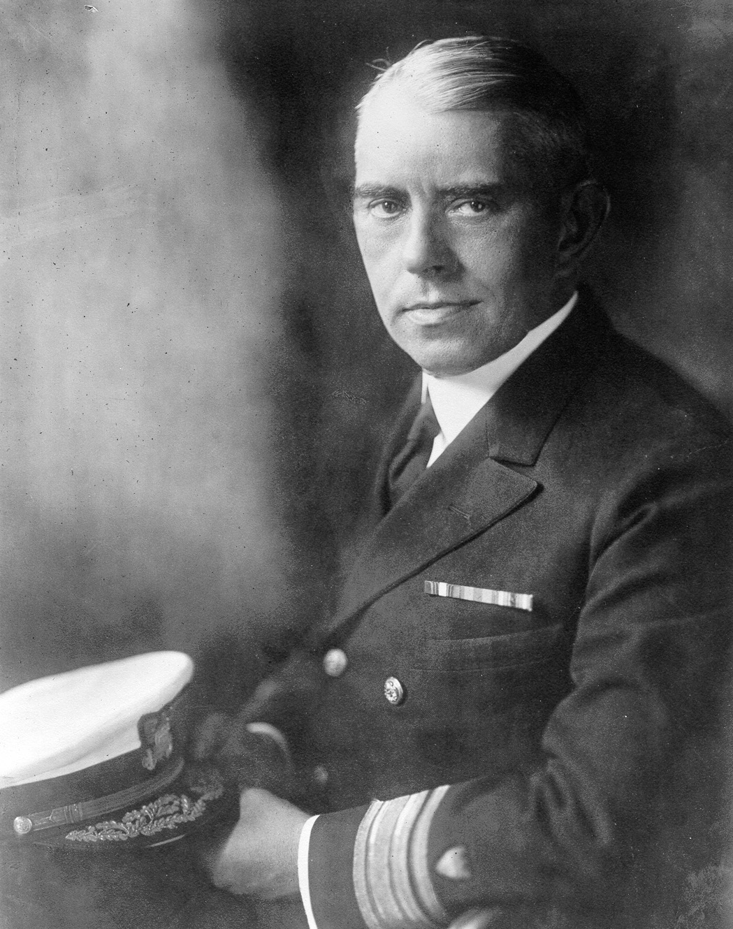 Frederick C. Billard, USCG; photo from official Coast Guard biography at